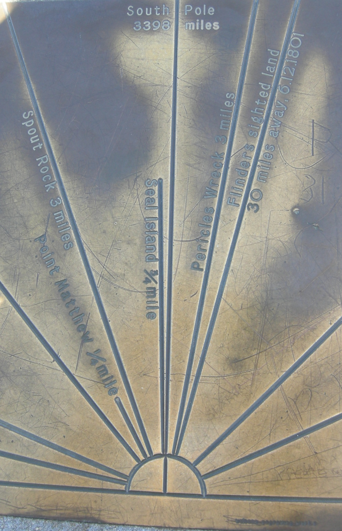 Plaque showing distances - notably to south Pole - and Pericles wreck. It is east of Cape Leeuwin Lighthouse.